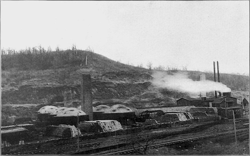 Original caption: "Plate XXIX. Plant of the Lehigh Brick and Tile Company, Lehigh, Iowa."